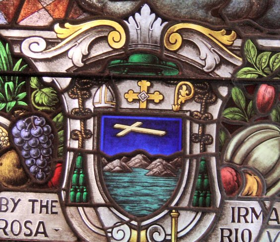 Pic taken and uploaded by User: Aloysius Patacsil Episocopal arms of Msgr. Rouchouze, Vicar Apostolic of Oriental Oceania, in the Cathedral of our Lady of Peace, Honolulu.